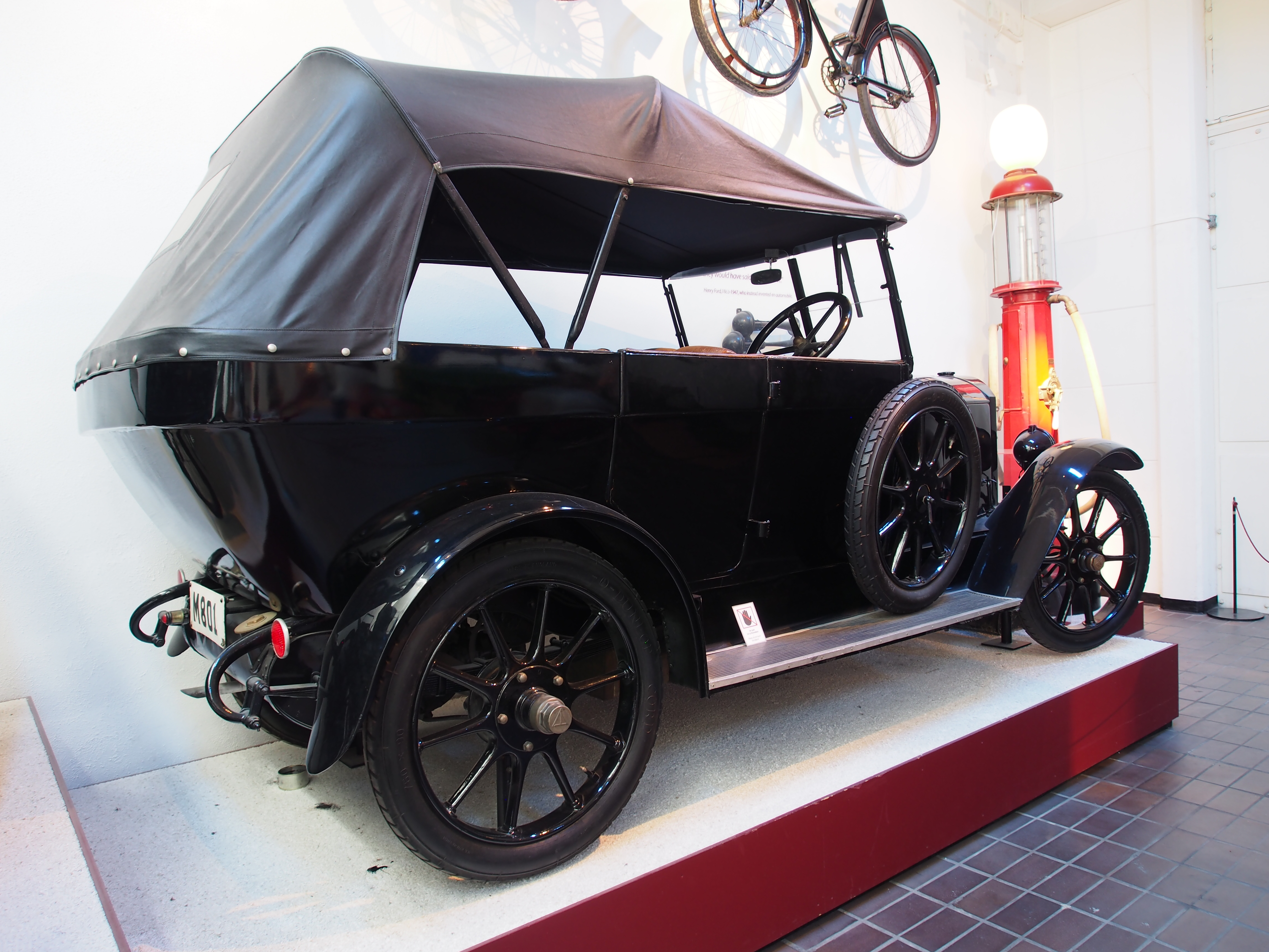 Photographed at Malmö Museer Teknikens och sjöfartens hus (Science and Maritime House) Malmo, Sweden.